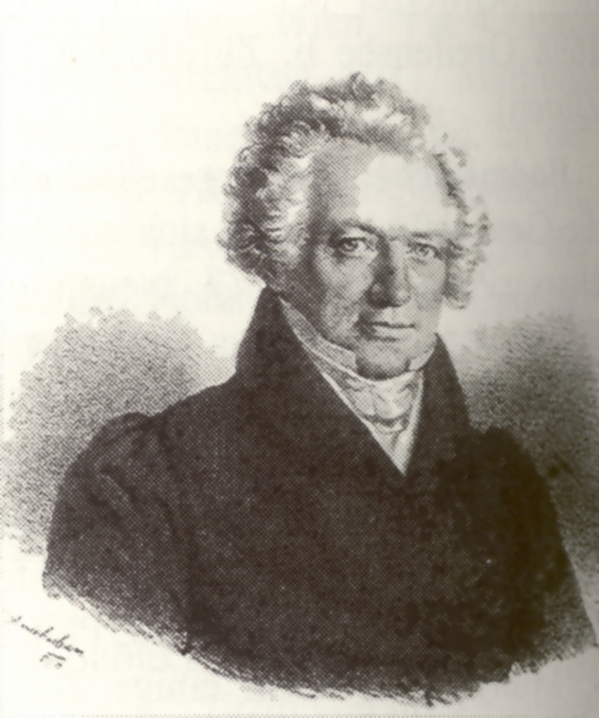 Portrait of Johann Lukas Boer